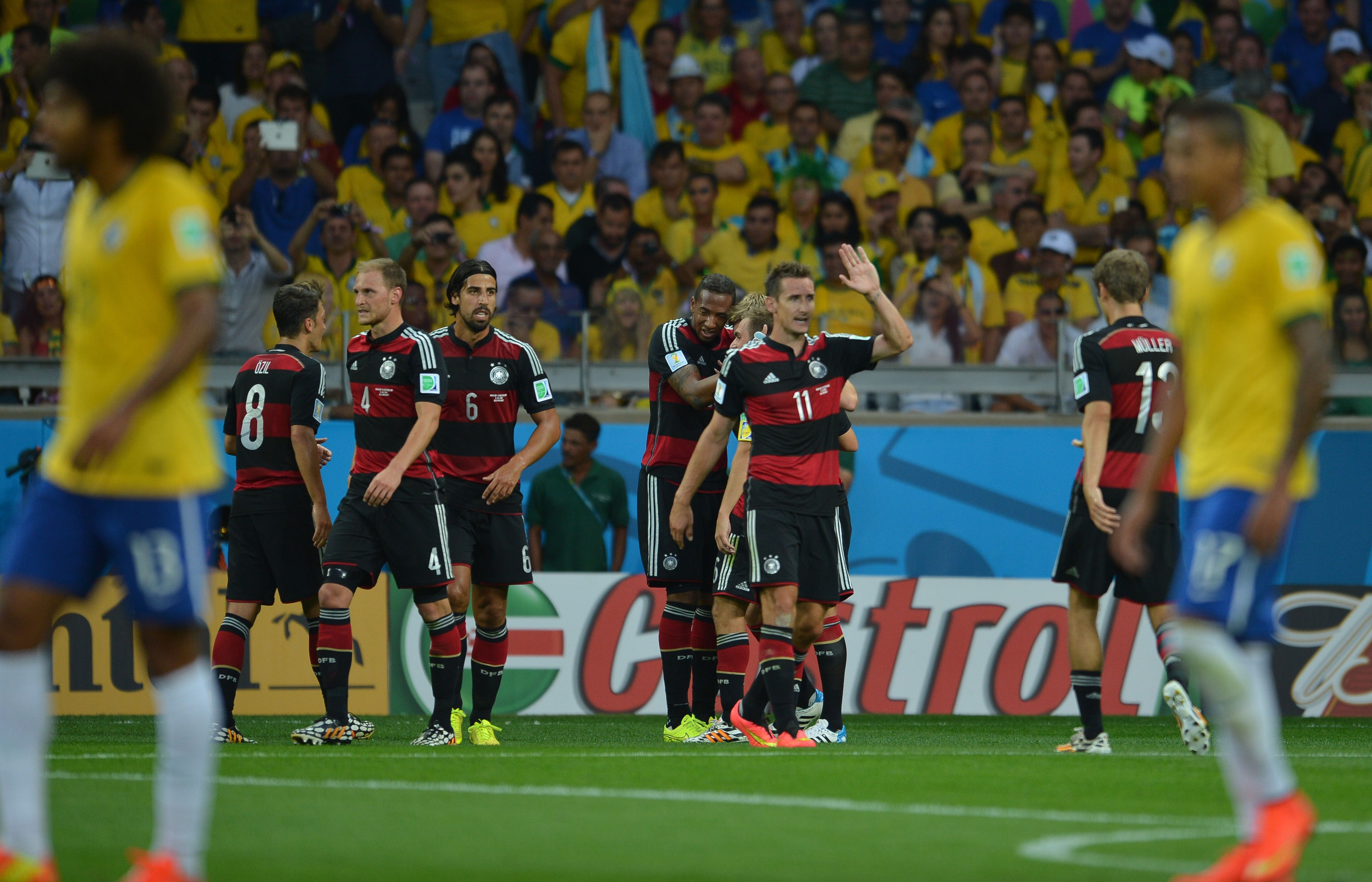 Brazil vs Germany, in Belo Horizonte